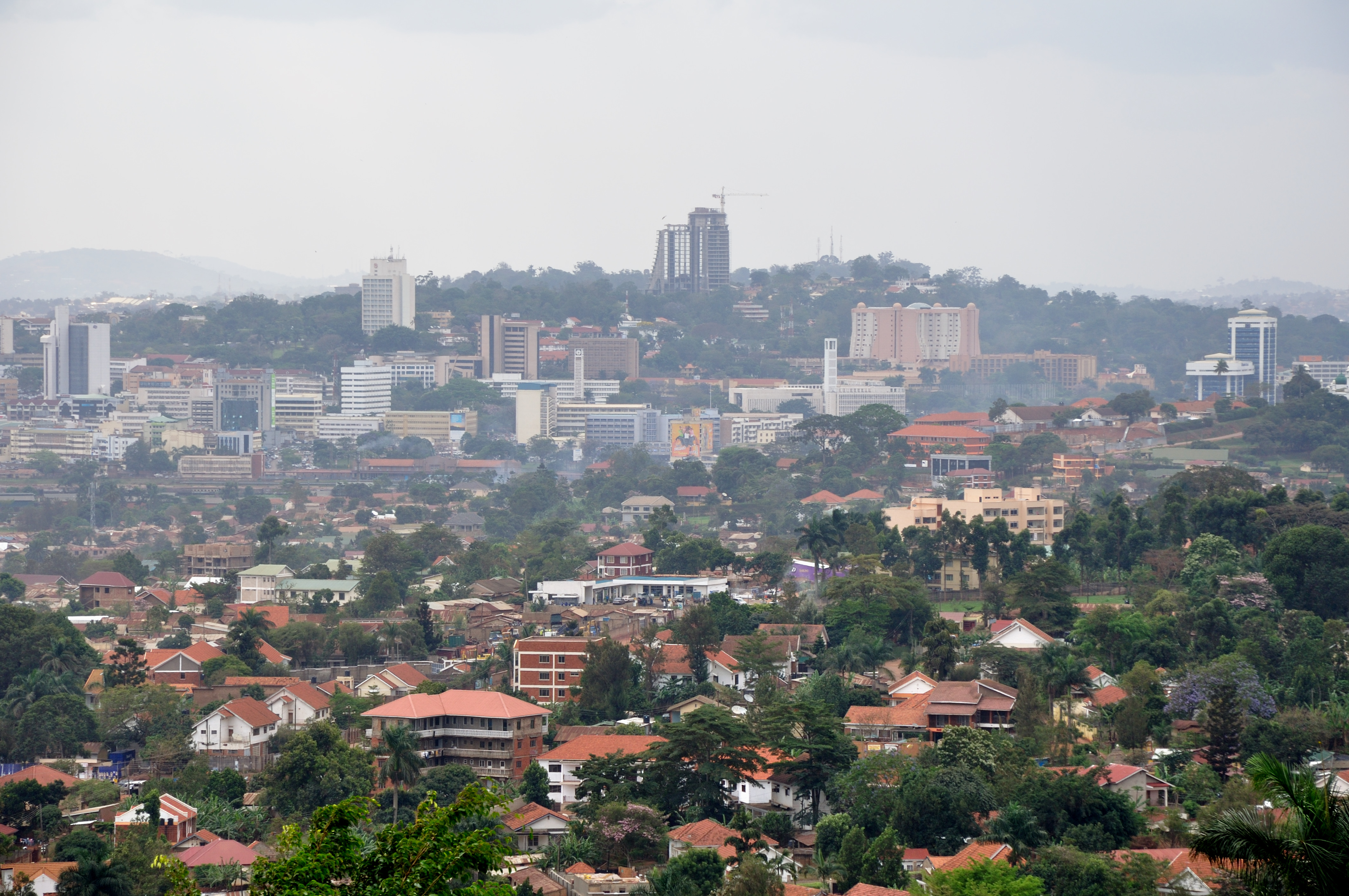 Uganda, View over the city